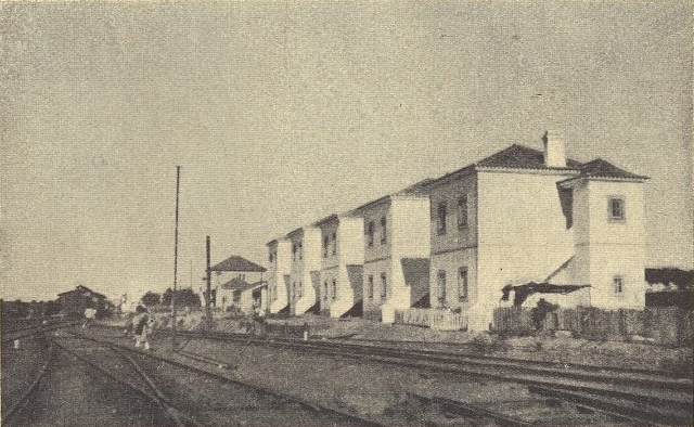 Group of personnel houses at the Casa Branca Railway Station, in the Alentejo Railway, in Portugal. This photograph was published on the Gazeta dos Caminhos de Ferro magazine no. 1121, of the 1st September 1934, and scanned by the Hemeroteca Municipal de Lisboa.